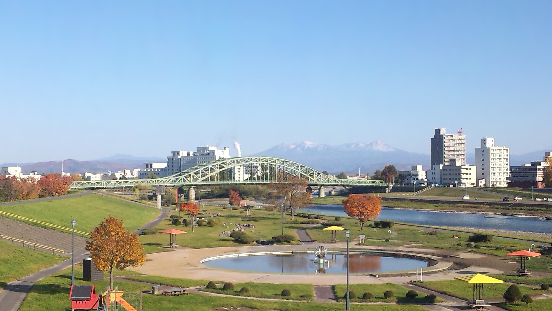 Asahibashi Bridge and Daisetsuzan Mountain Range, in Asahikawa, Hokkaido, Japan